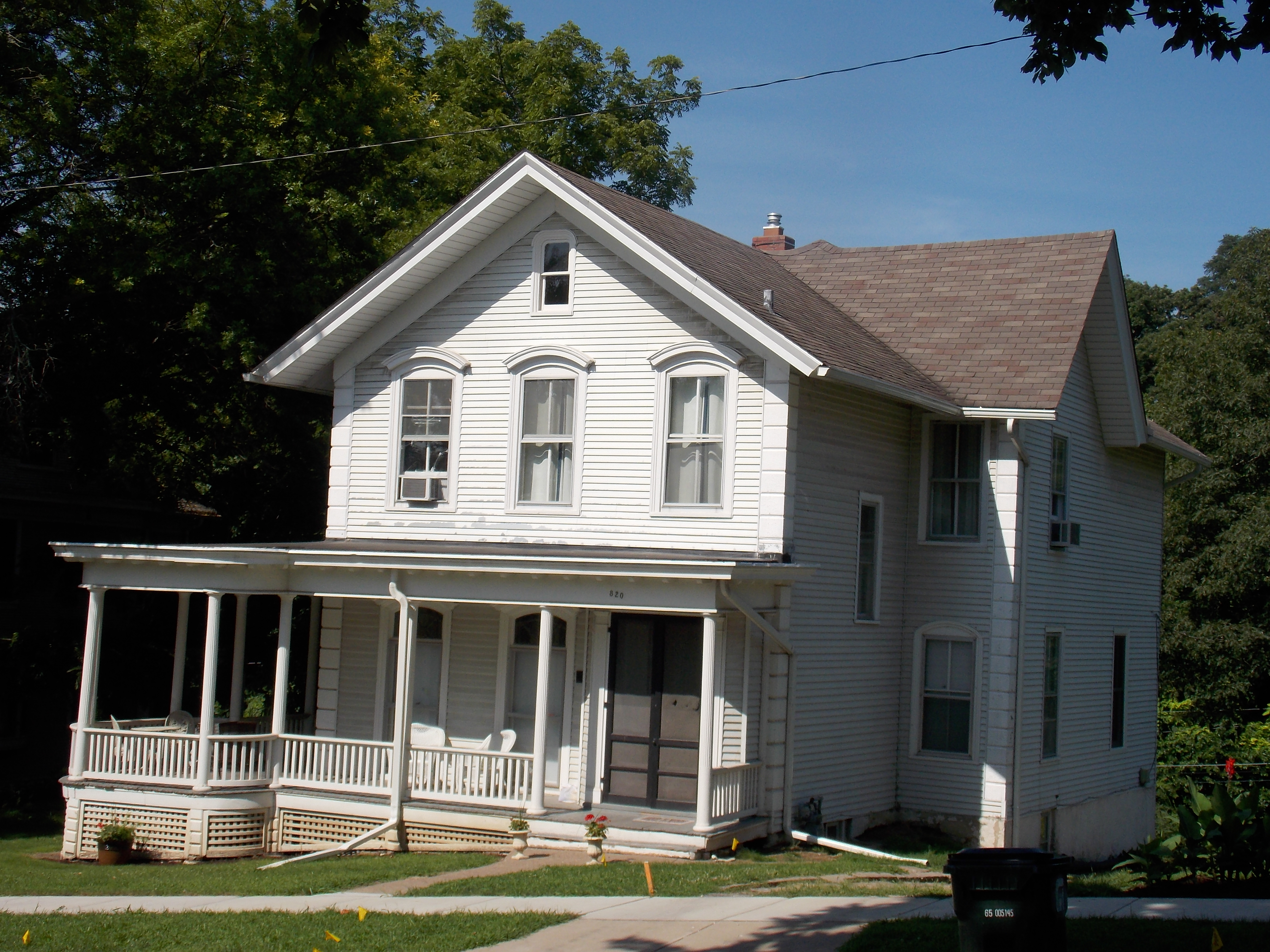 The John B. Carmichael House is a contributing property in the Bridge Avenue Historic District, Davenport, Iowa.